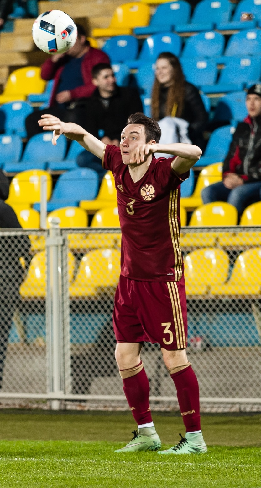 Vyacheslav Karavayev in action for the Russia under-21 national football team in a game against Germany under-21 in Rostov-on-Don on 29 March 2016.